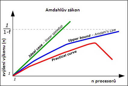 Amdahl's Law